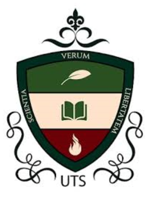 ESCUDO UTS